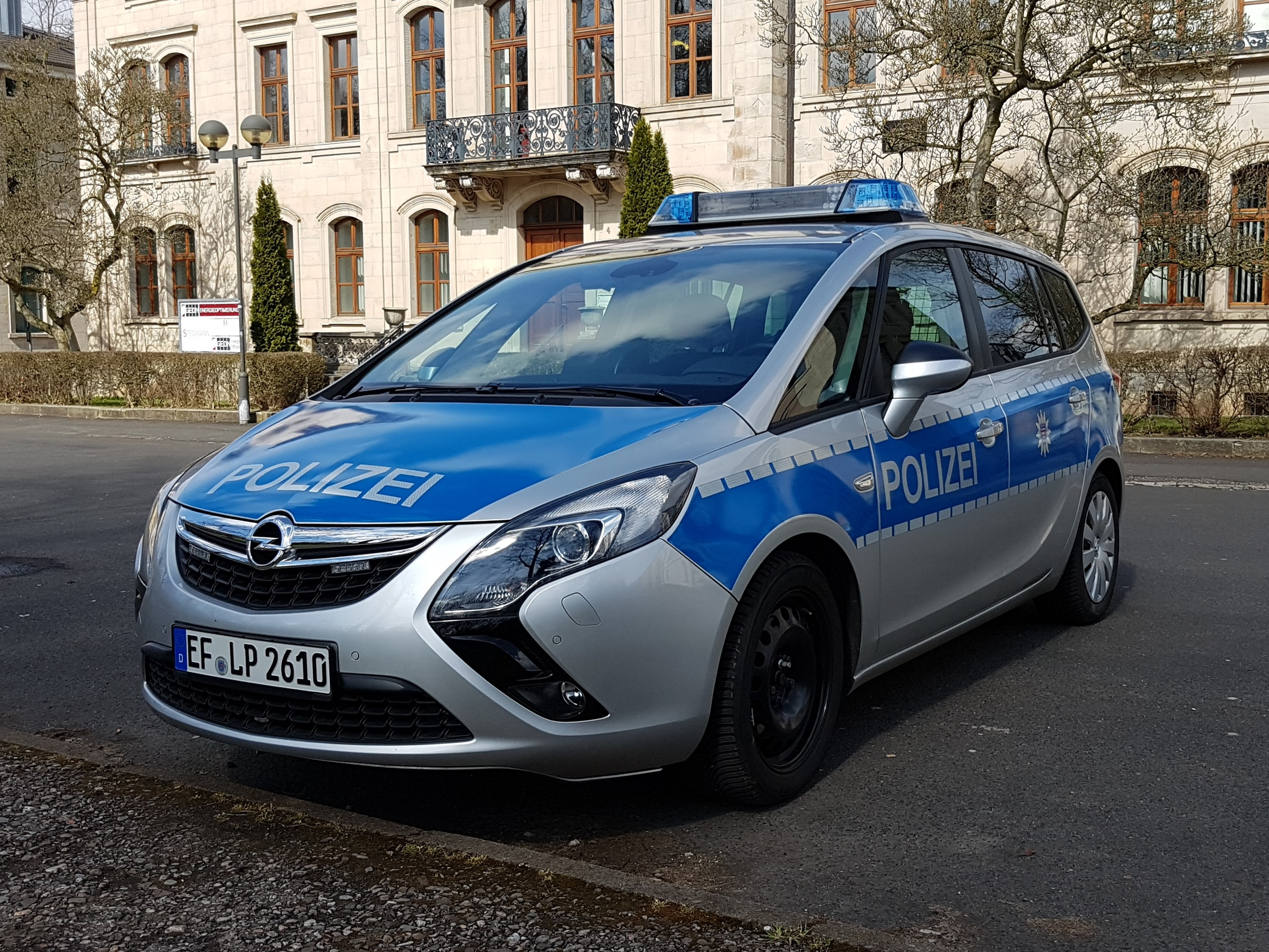 A Opel Zafira Police Car the Thuringian Police in Meiningen.